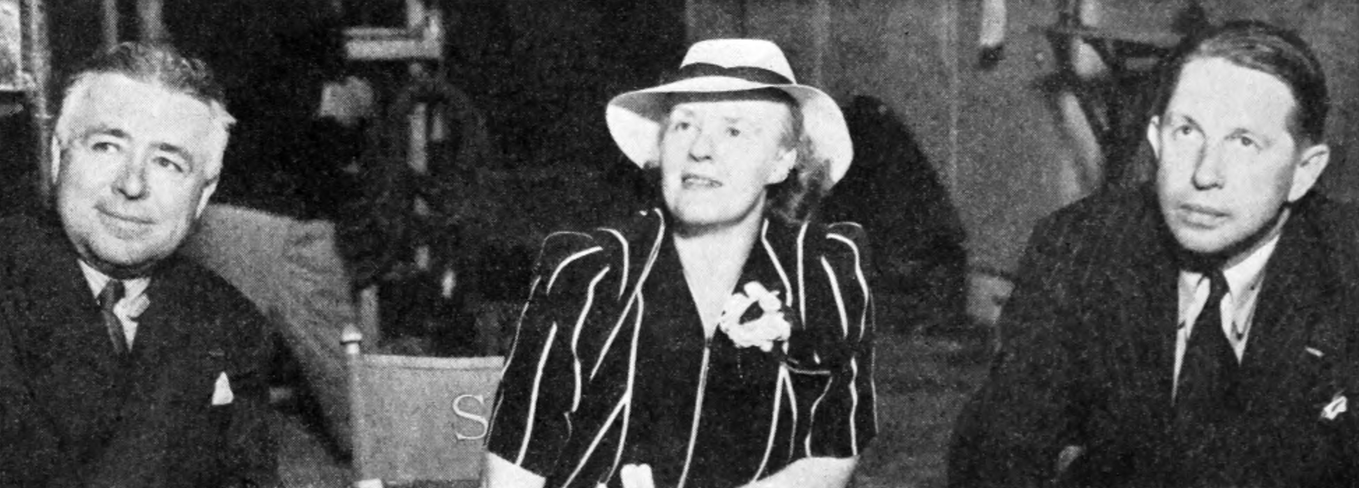 Photograph taken on the set of The Rains Came. Pictured from left: director Clarence Brown; journalist Dorothy Thompson, a visitor; and writer Louis Bromfield, on whose 1937 novel the film was based.